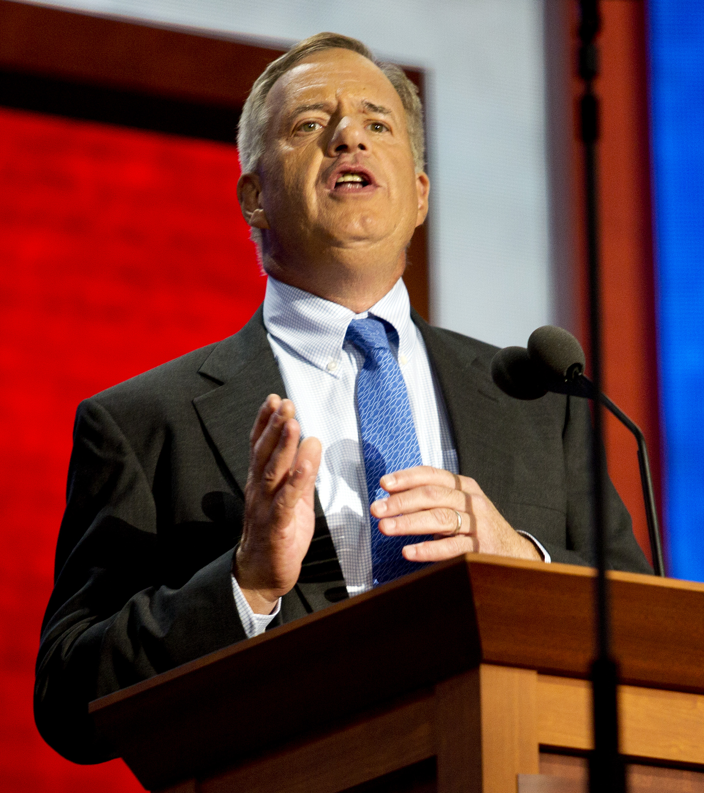 Tom Stemberg, founder of Staples, describes the support he received from Mitt Romney and others at Bain Capital in starting his business. Photo By Mallory Benedict/PBS NewsHour